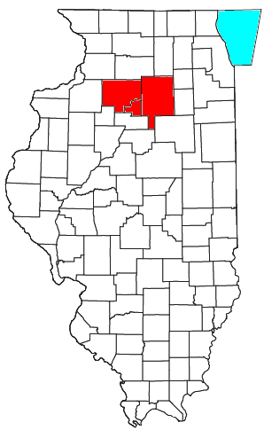 Locator map of the Ottawa-Streator Micropolitan Statistical Area in the northern part of the U.S. state of Illinois.